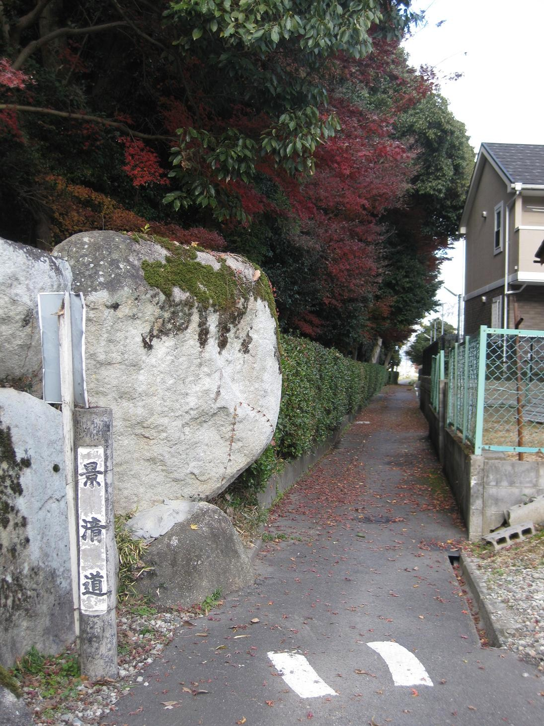 The Kagekiyo-michi road in Gokasho, Higashiomi, Shiga, Japan